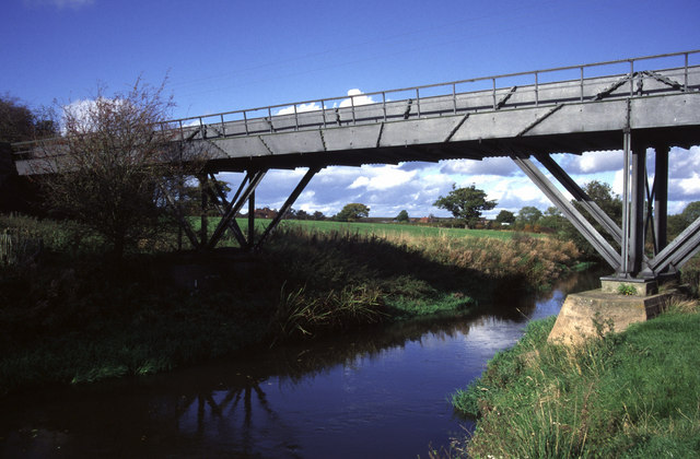 Aqueduct, Longdon-on-Tern Iconic iron aqueduct striding across the water.